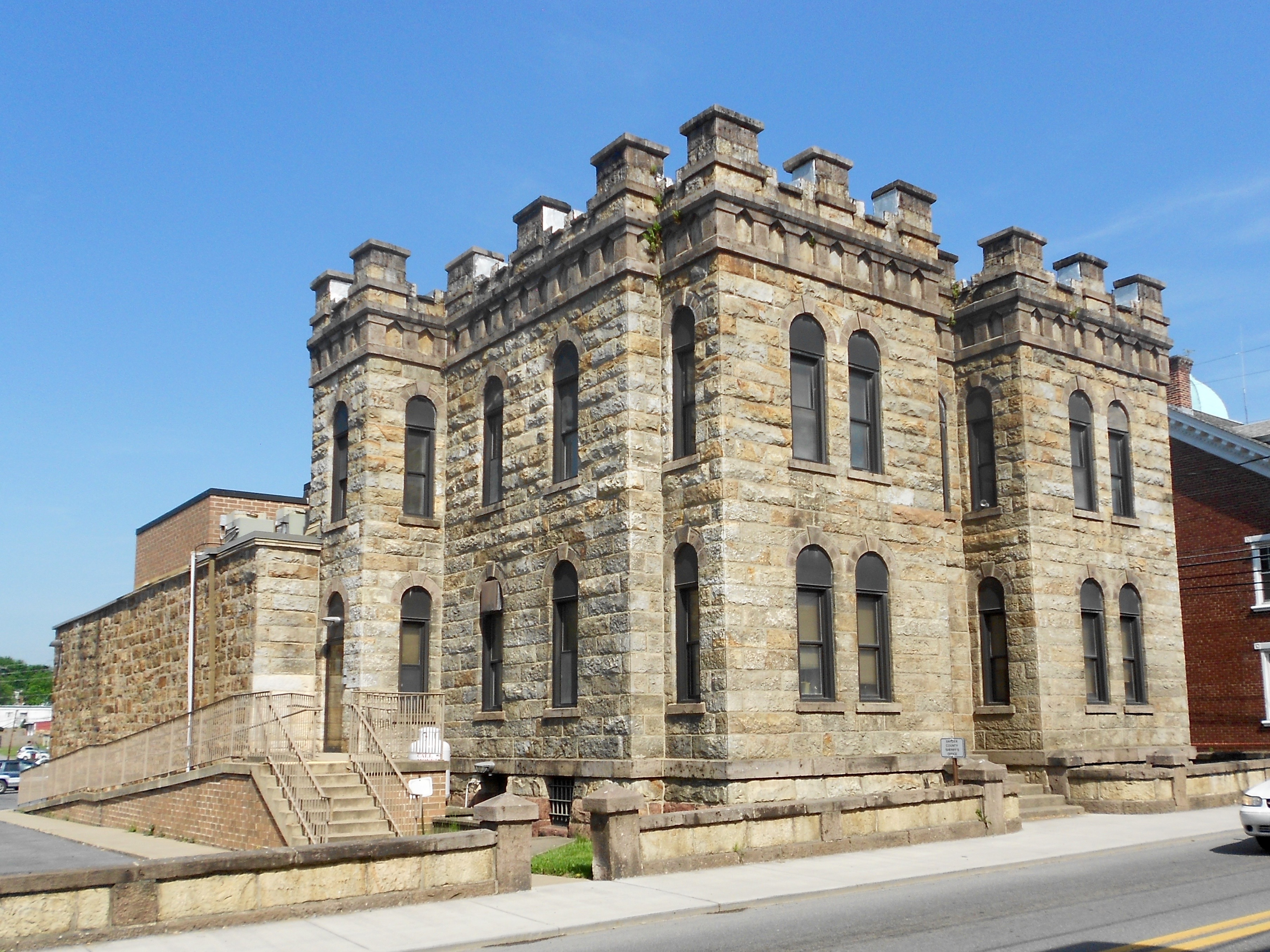 Snyder County Prison in Middleburg, Pennsylvania